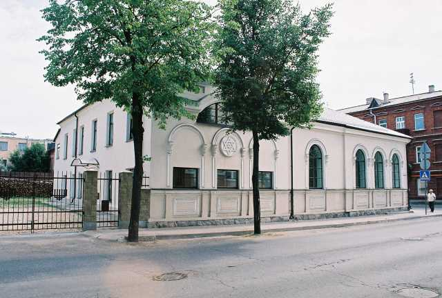 Daugavpils synagogue “Kadish”